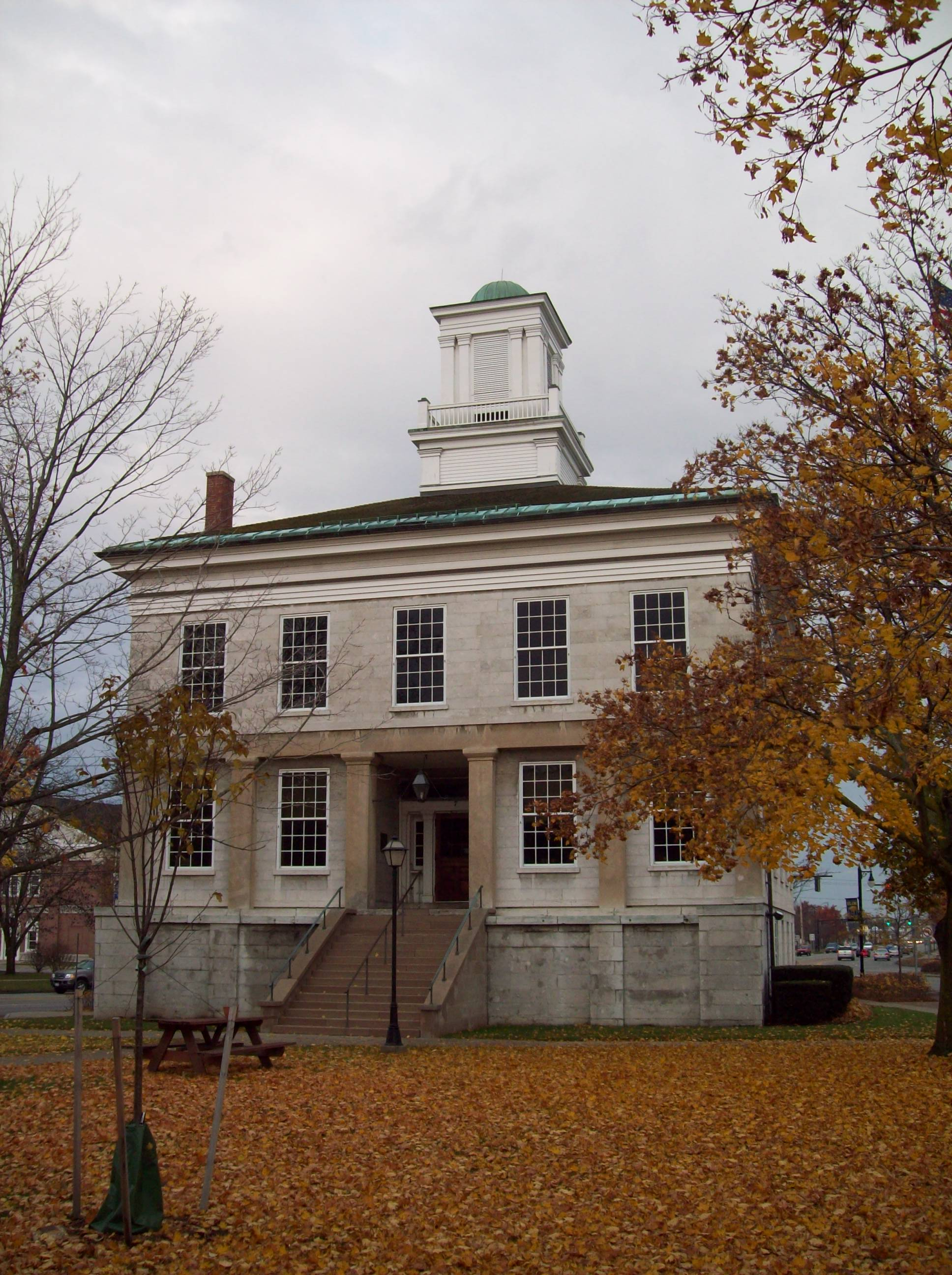 Genesee County Courthouse, October 2009